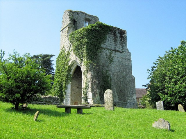 Ruined Church of St. Mary's at Little Chart St. Mary's was built in three phases between the years 1200-1500 AD, and was reduced to its present picturesque, but ruinous state, as a result of enemy action during the second world war. At just before 8pm on 16th August 1944, the rocket engine of a V1 flying bomb, or 'Doodlebug', cut out in the skies above Kent, and like so many others, fell short of its intended target, and landed instead upon the church. Although the resultant explosion devastated St.Mary's, mercifully, no lives were lost in the incident. A new church, bearing the same name, was built in 1955, in square TQ9445